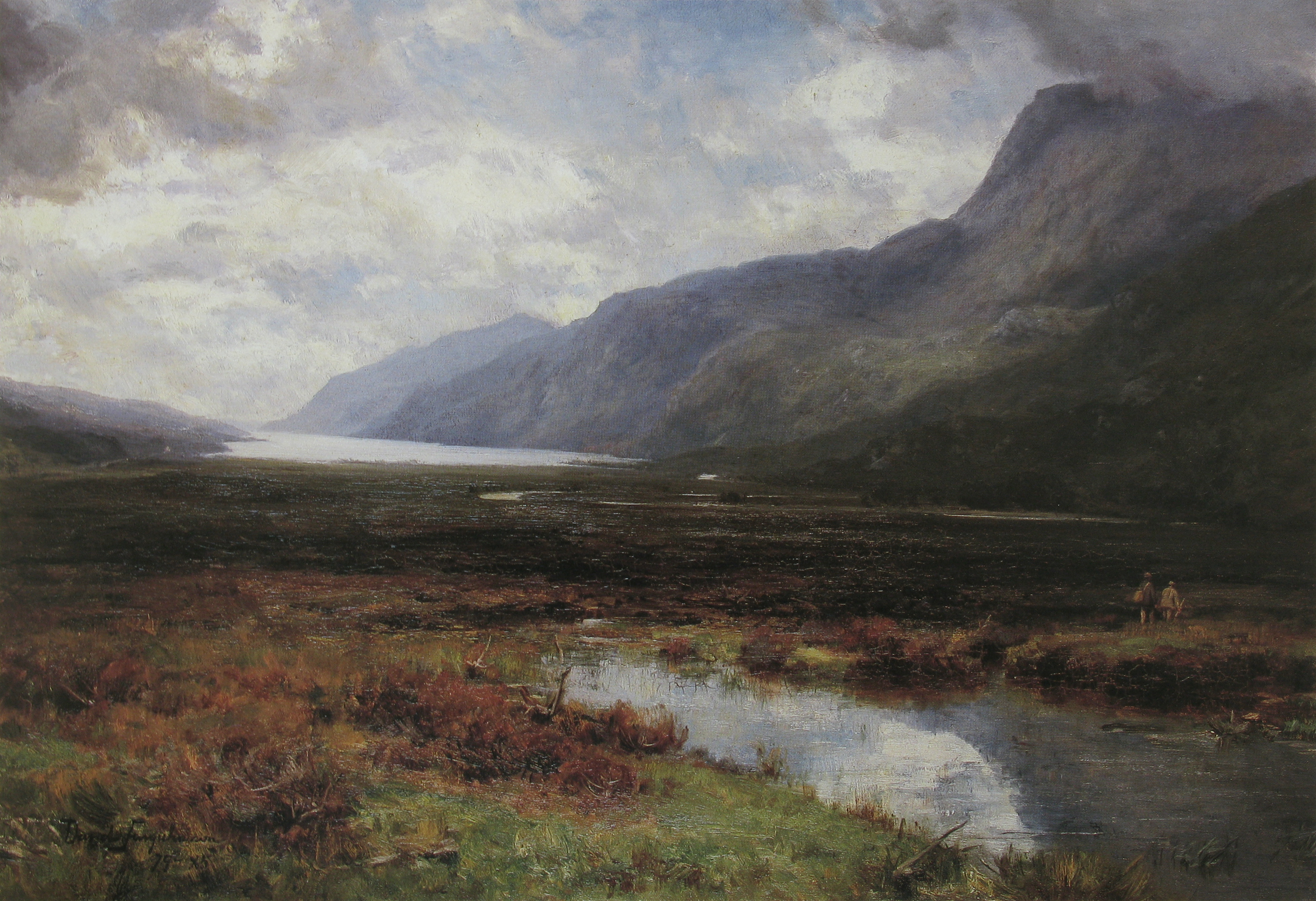 The End of the Day's Fishing; Oil on Canvas, 56 x 91.5 cm